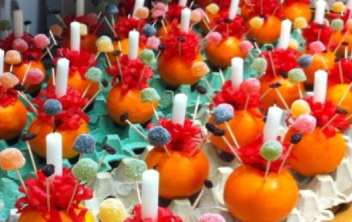 Christingles prepared for a service